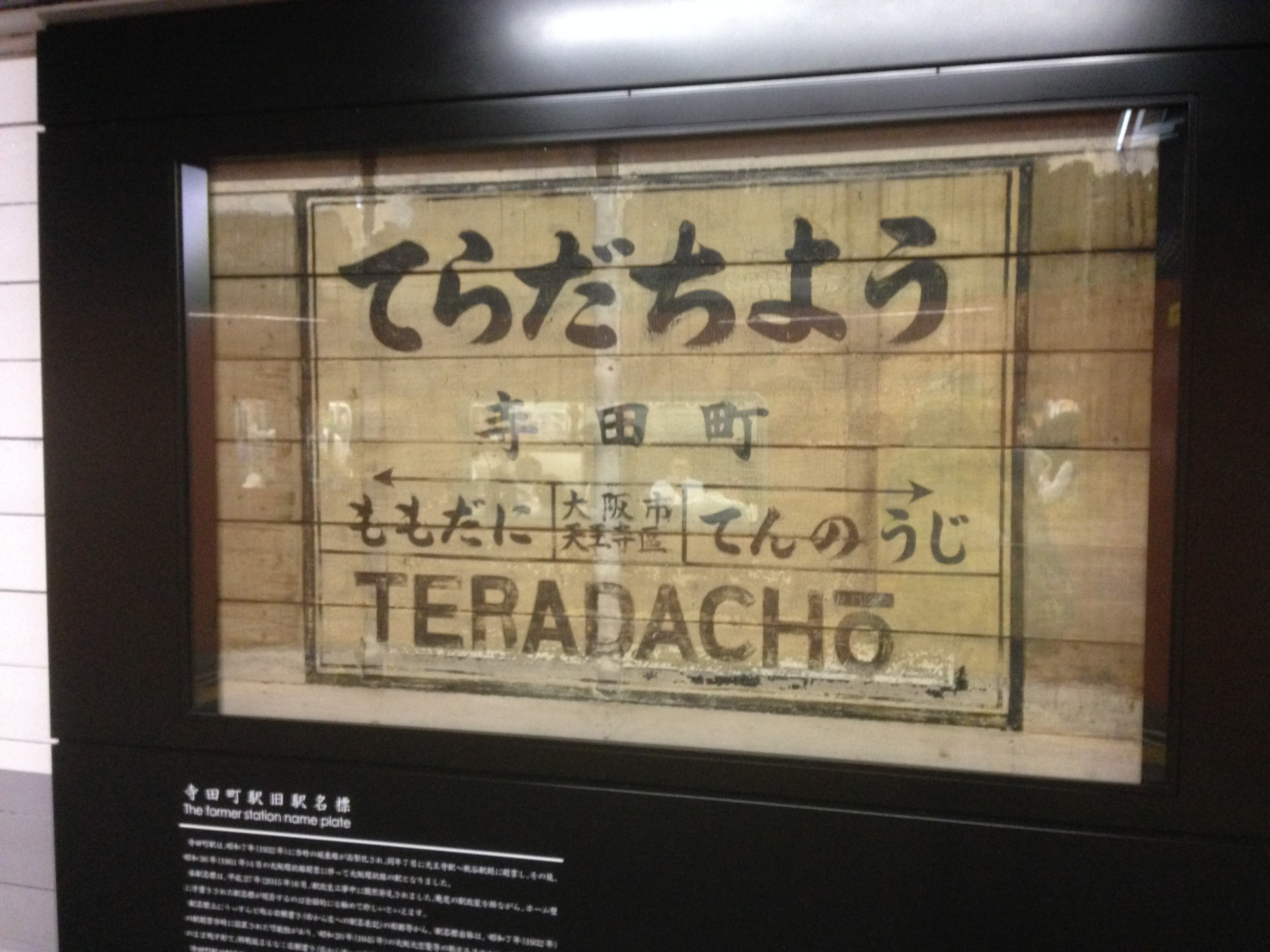 An old wooden station sign at Teradacho Station on the Osaka Loop Line. The sign was discovered during renovation work in August 2015, and was subsequently preserved on display.